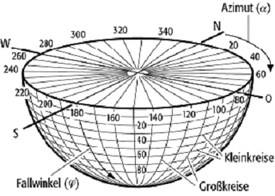 rock deformation, tectonics